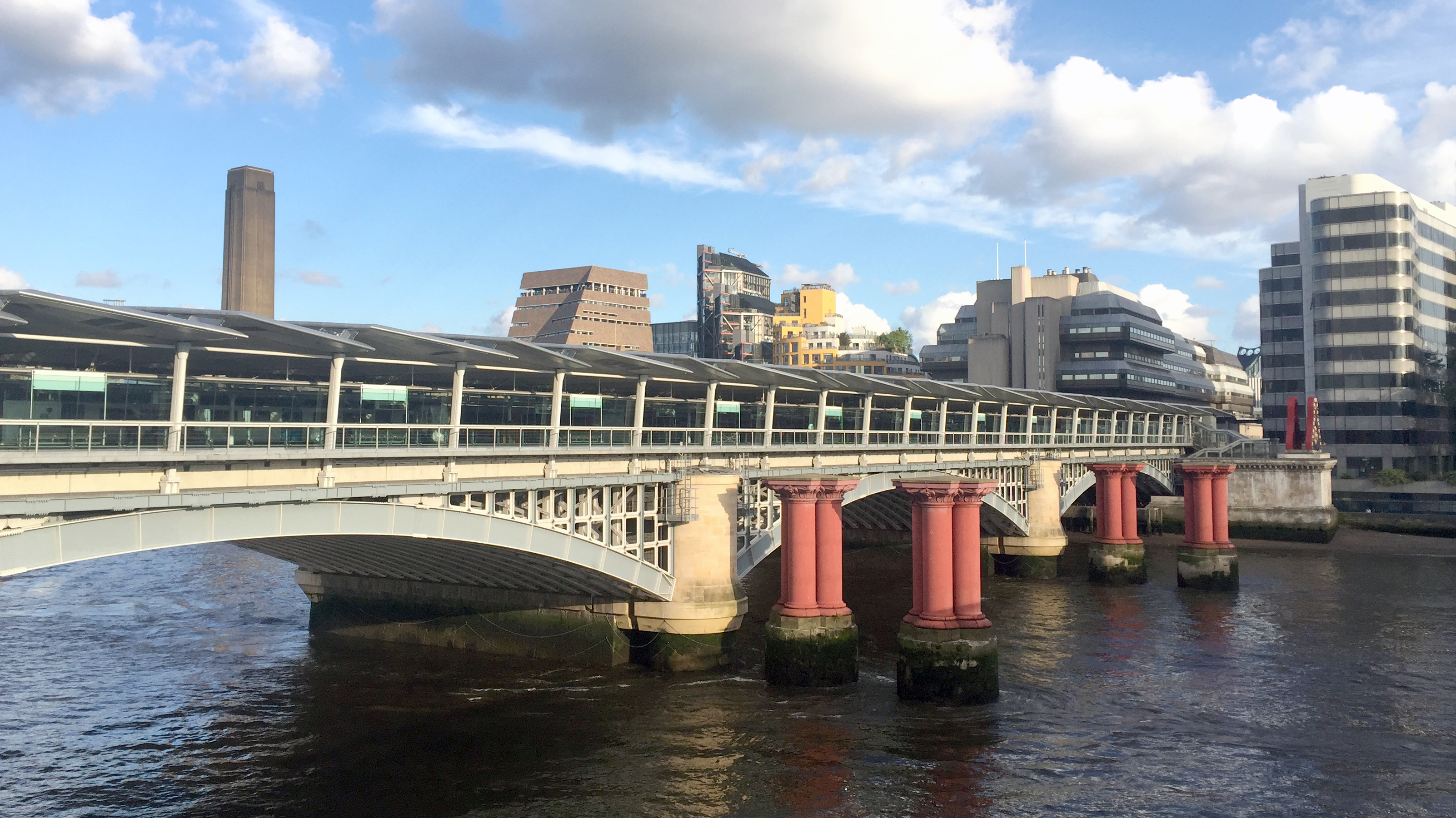 Picture of Blackfriars Bridge in London, constructed by Balfour Beatty